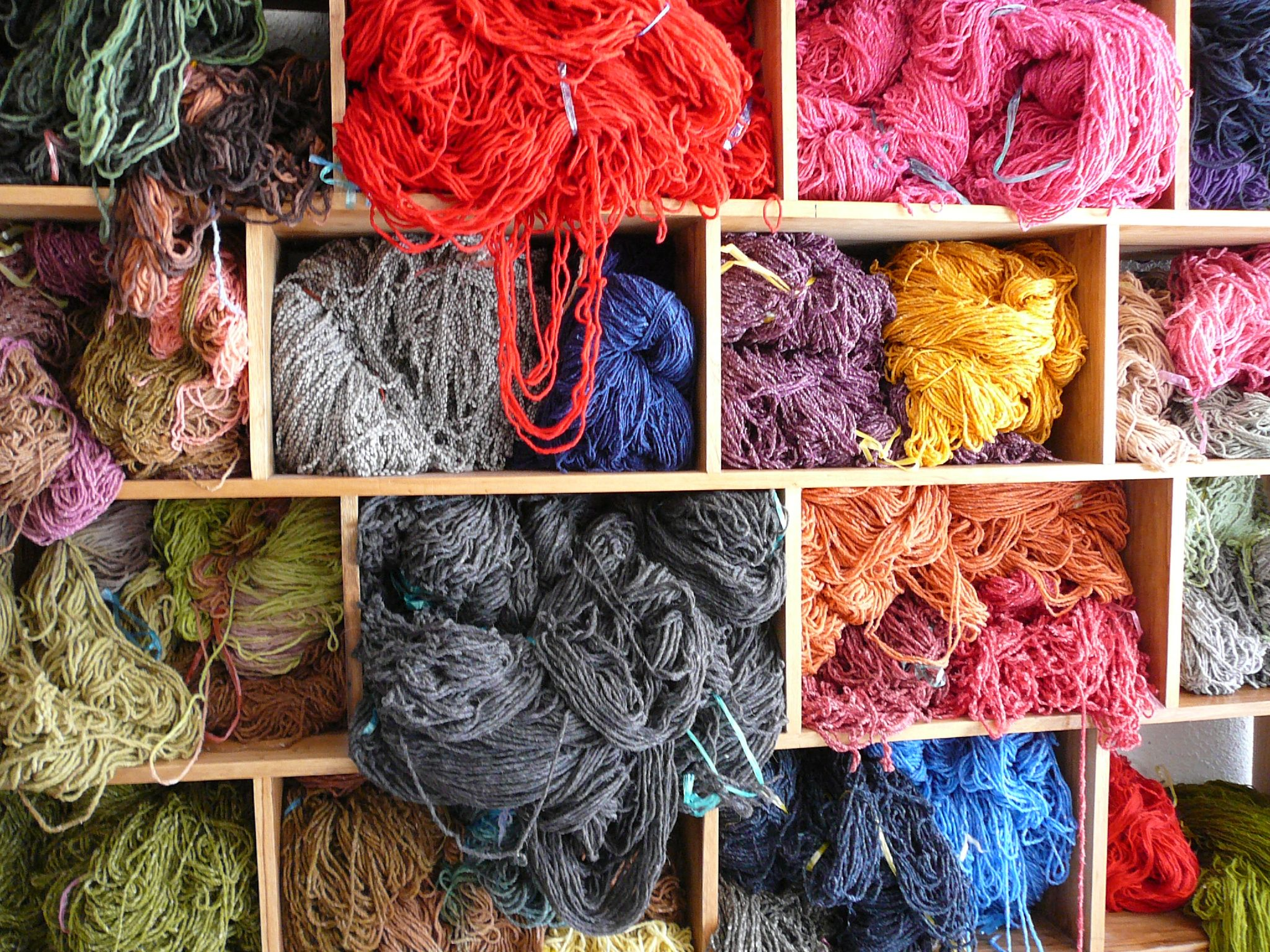 Dyed wool - Salinas - Ecuador